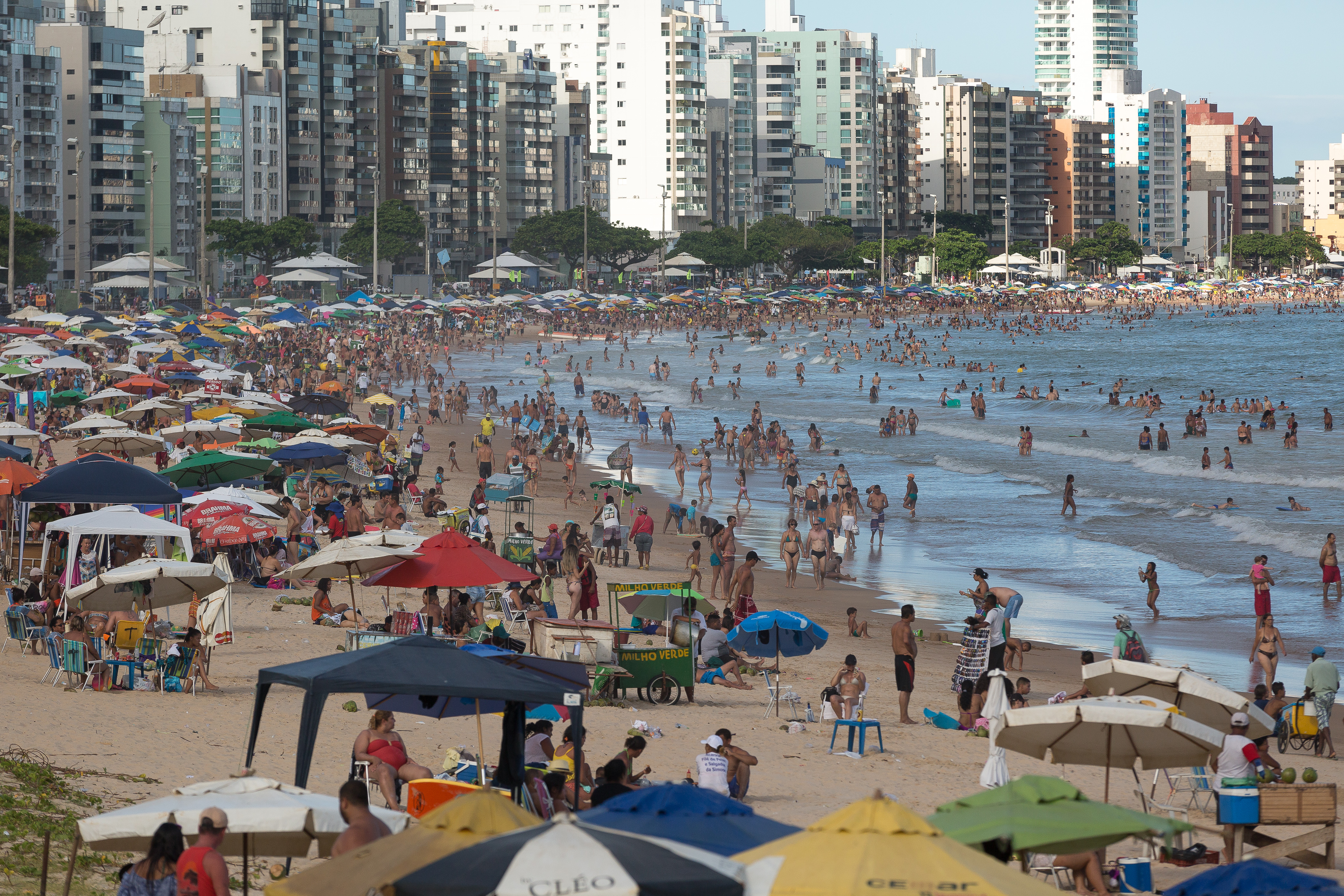 Movimentação de banhistas na durante o verão na Praia do Morro, localizada na cidade de Guarapari